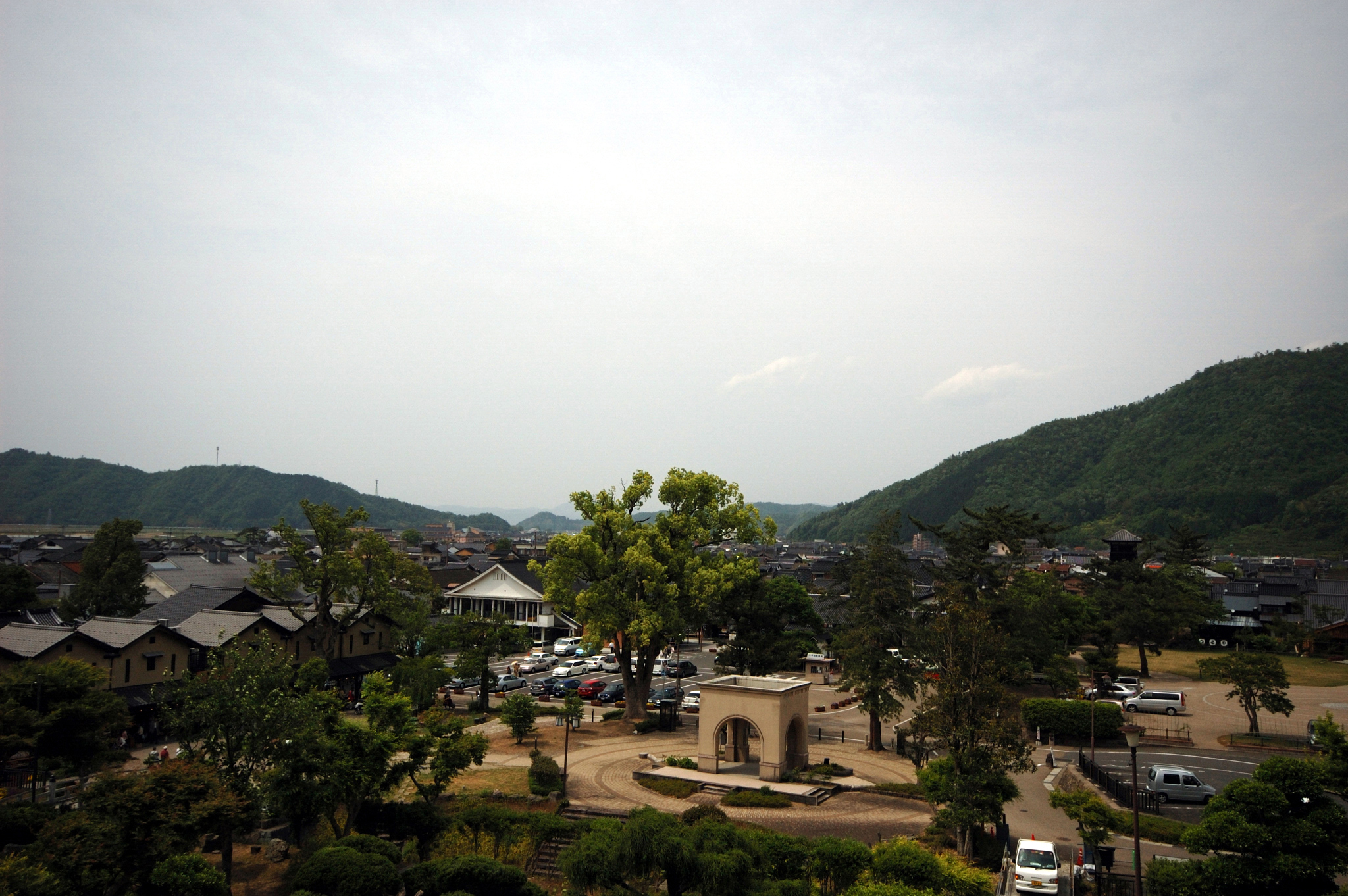 Izushi town view from Izushi castle Ni-no-maru